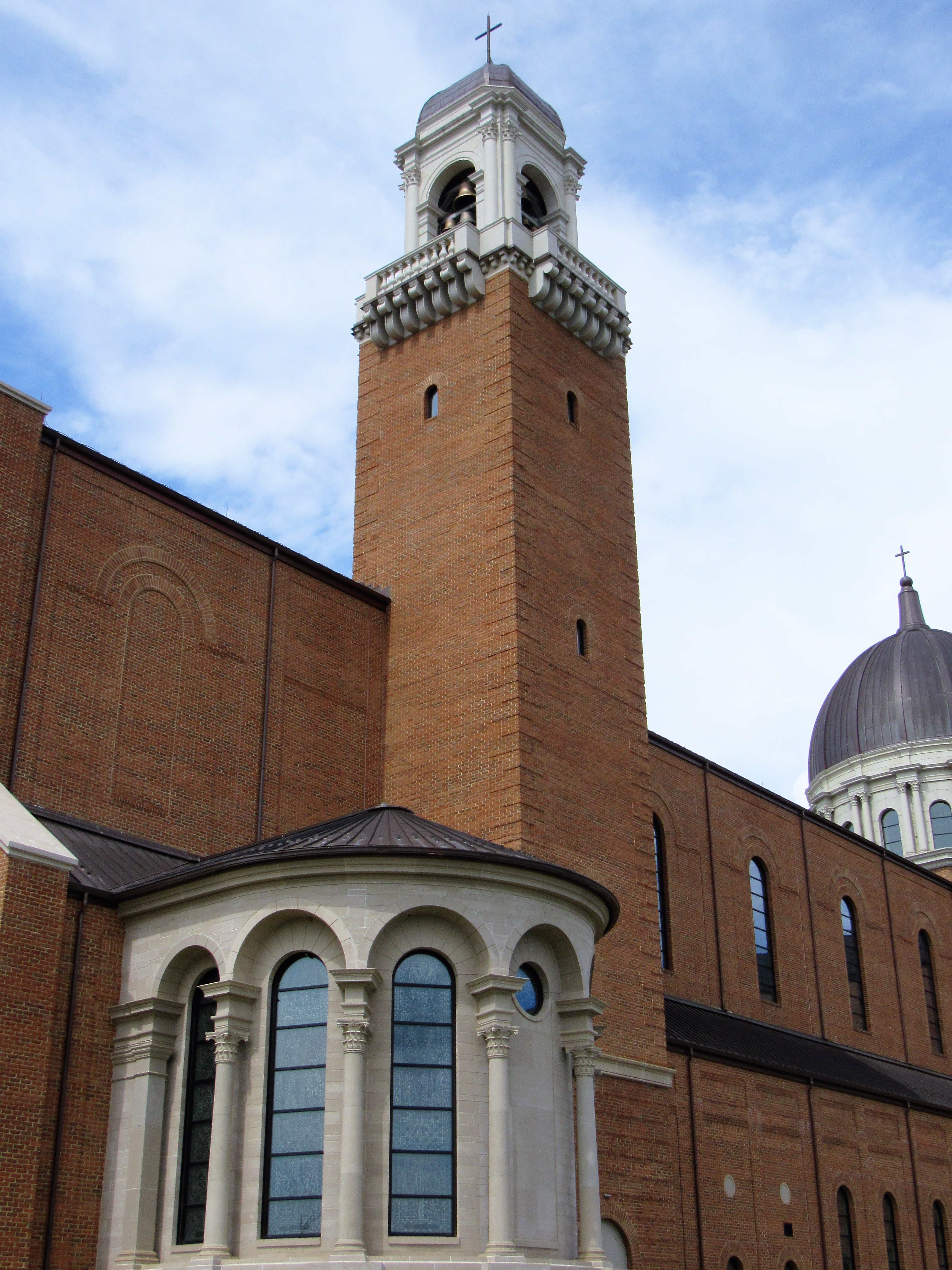 Holy Name of Jesus Cathedral in Raleigh, North Carolina.